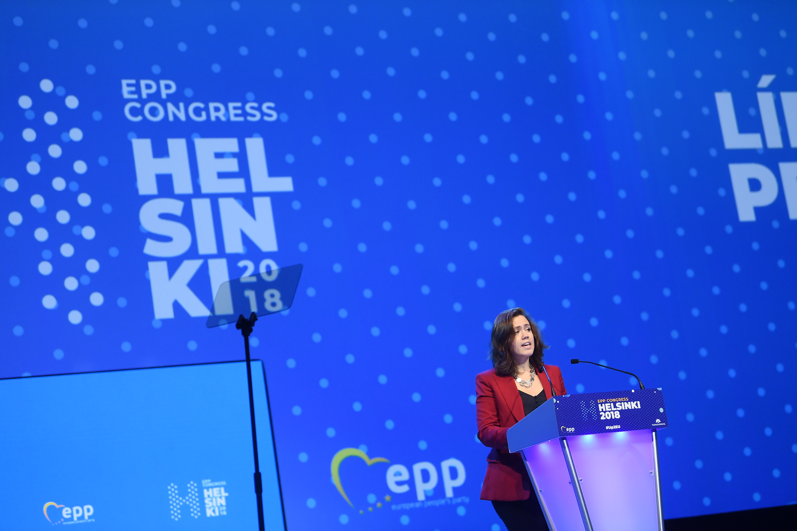 Lídia Pereira, YEPP president, at EPP Helsinki Congress in Finland, 7-8 November 2018